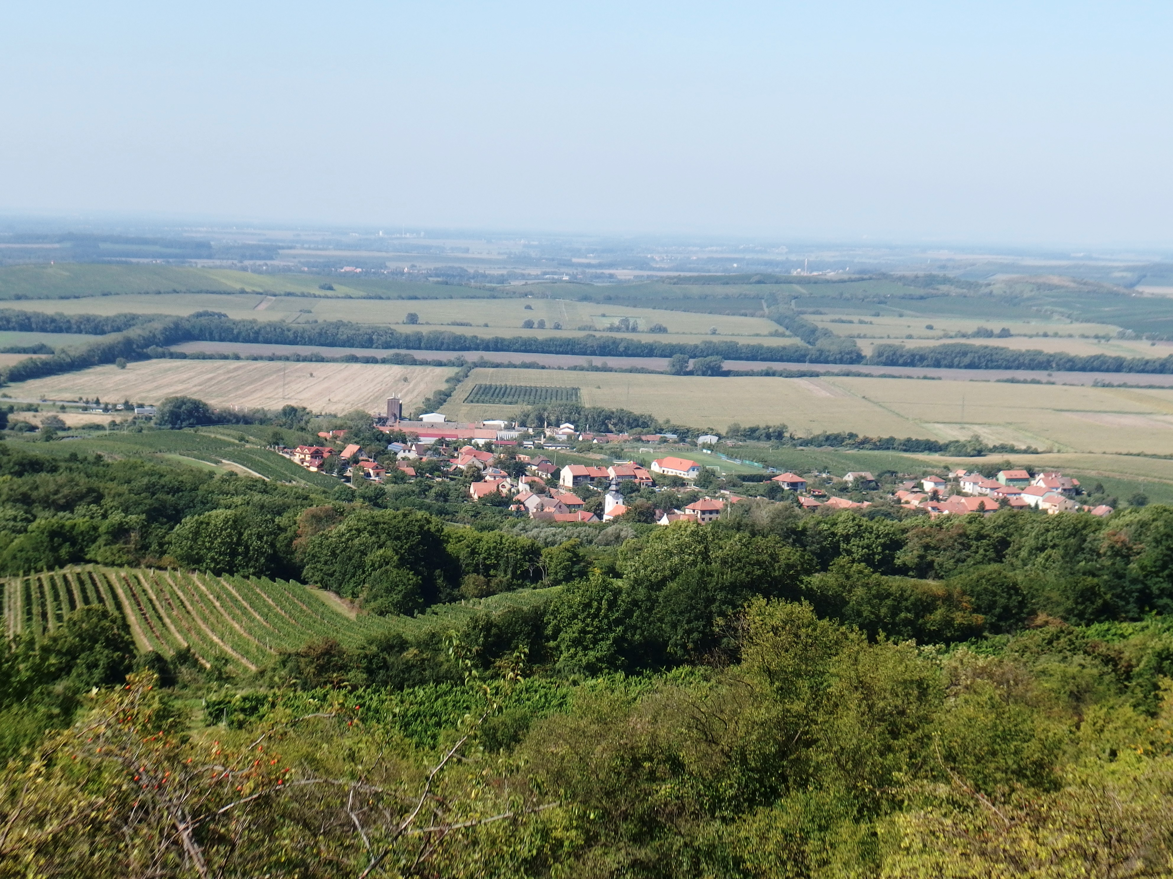 Bavory, Břeclav District, Czech Republic.